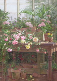 date guessed at 1946 just before she died